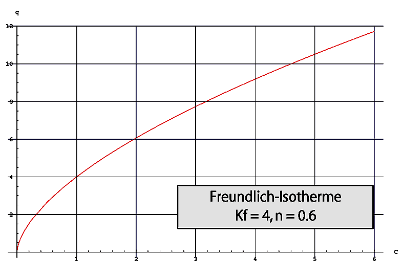 Illustrates a Freundlich sorption isotherm.